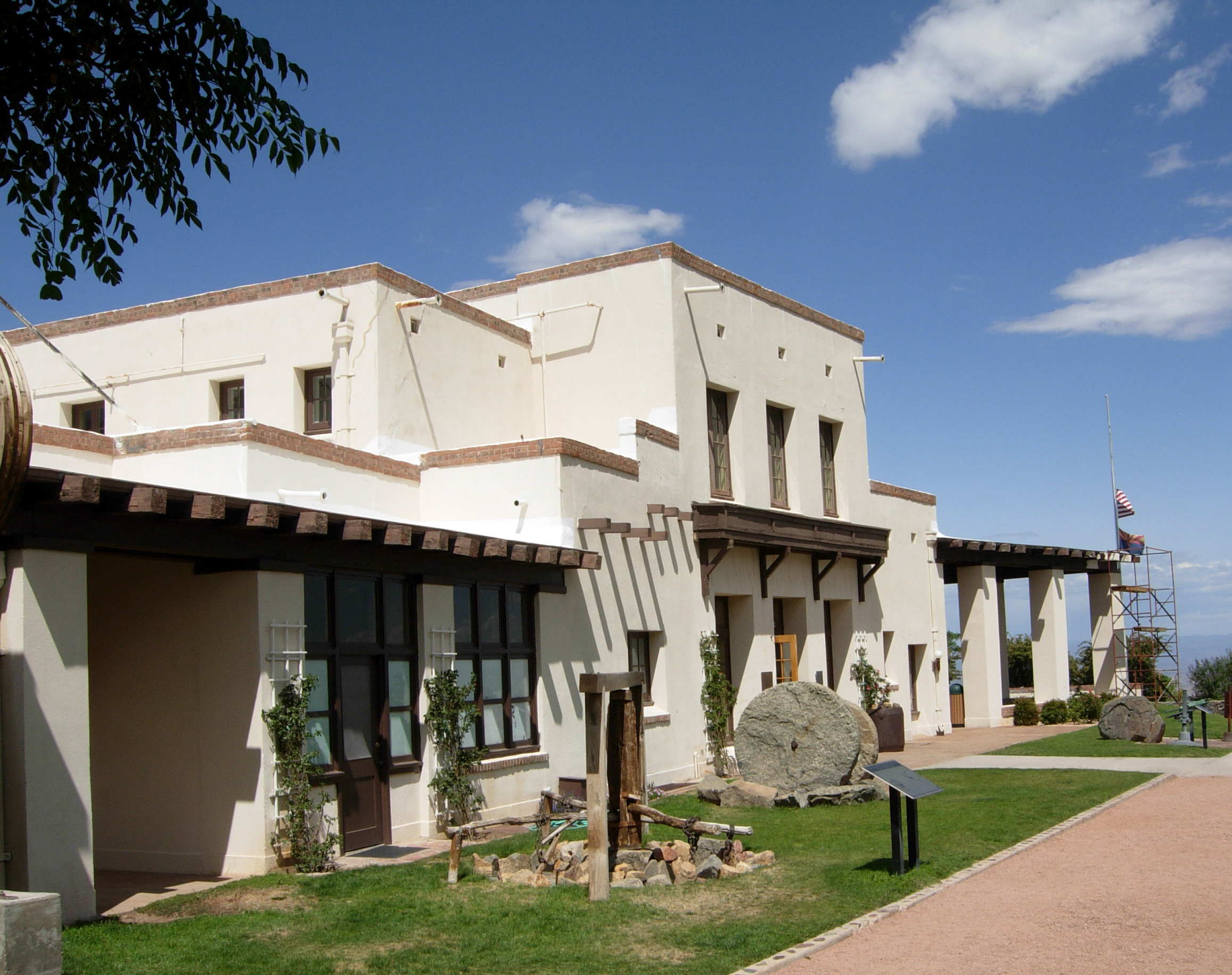 The Douglas Mansion at Jerome State Historic Park in Jerome, Arizona, United States. Built in 1913 as Arizona's largest adobe structure, it is a copper-mining, local history, and historic house museum.